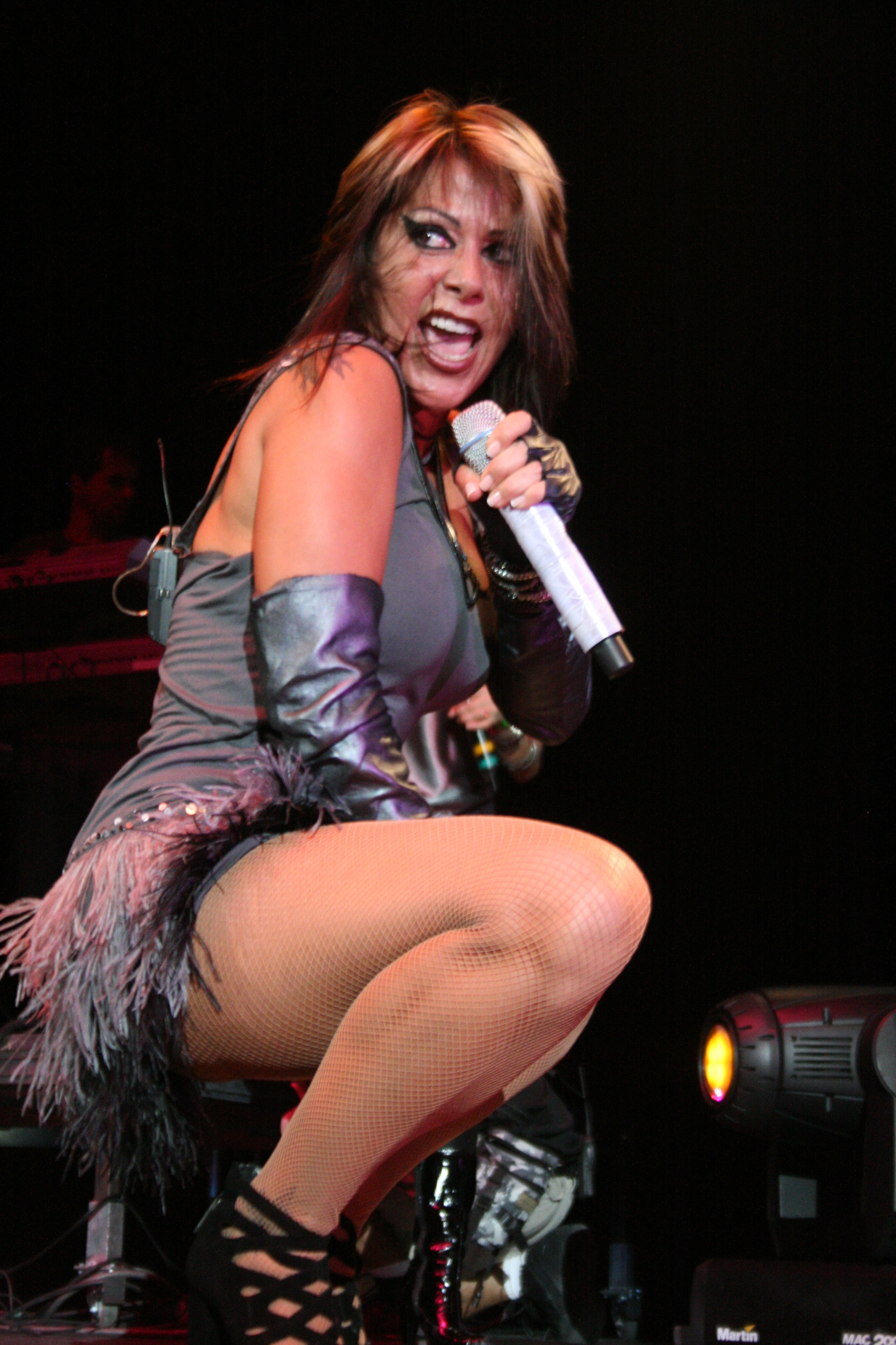 Alejandra Guzmán at Denver Coliseum, 2009.